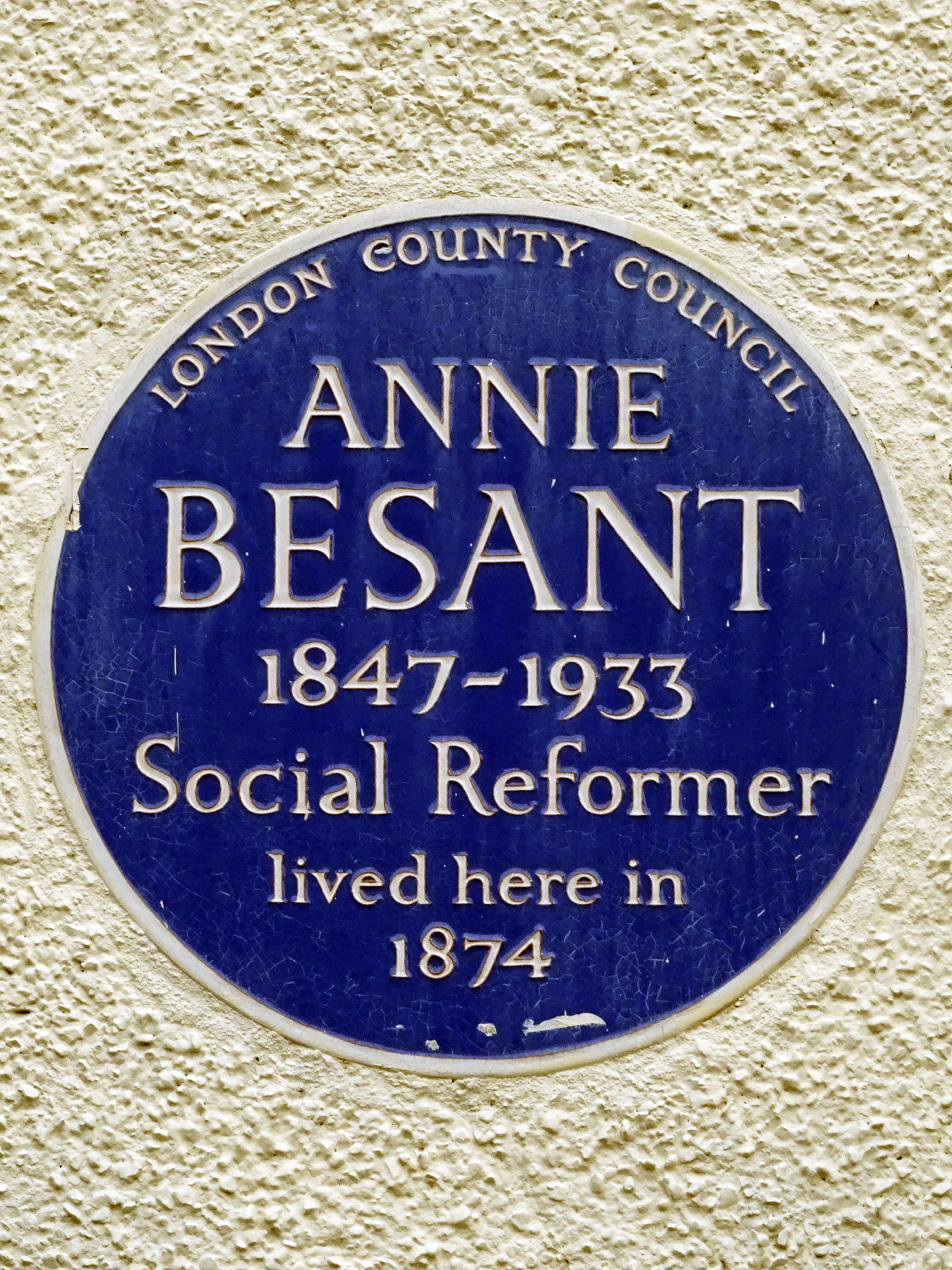 Blue plaque erected in 1963 by London County Council at 39 Colby Road, Gipsy Hill, London SE19 1HA, London Borough of Southwark